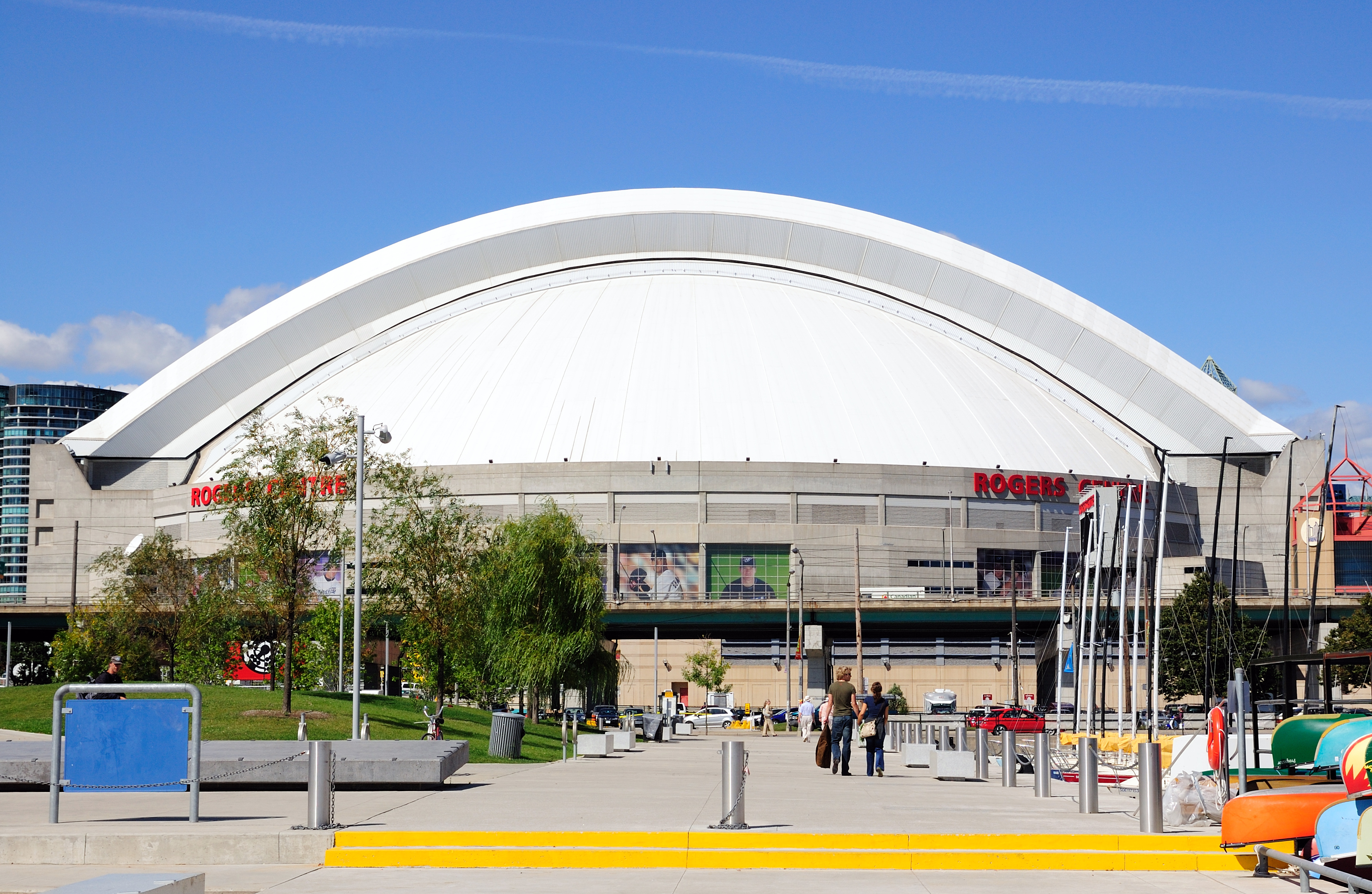 Rogers Centre, Toronto